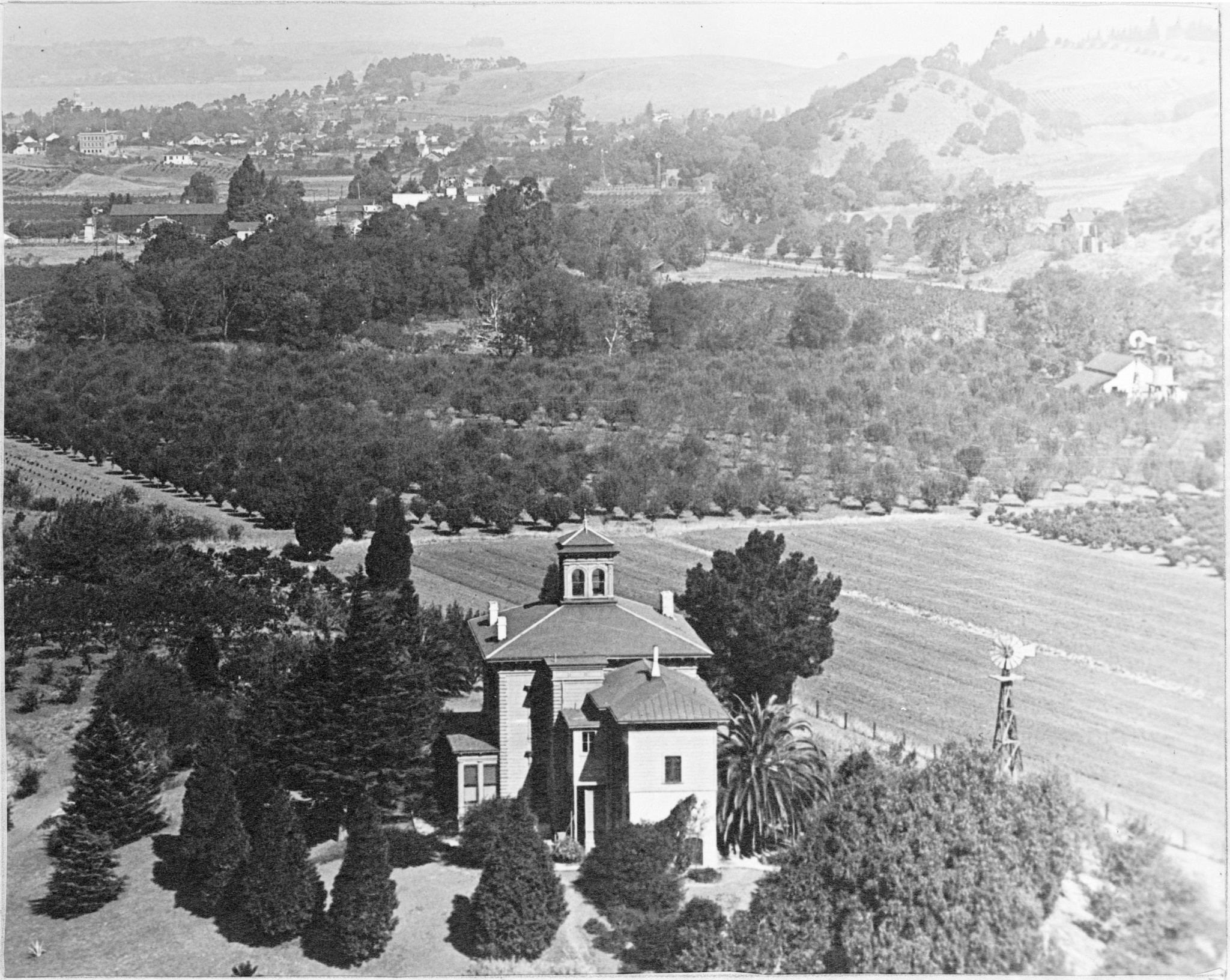 John Muir House, Martinez, California, USA. As seen in 1900 with the orchards of Dr. John Theophile Strentzel and John Muir in the background. Original caption: 1. Historic American Buildings Survey Photograph Original 1900 - Recopy 1960 GENERAL VIEW FROM SOUTH HABS CAL,7-MART,1-1